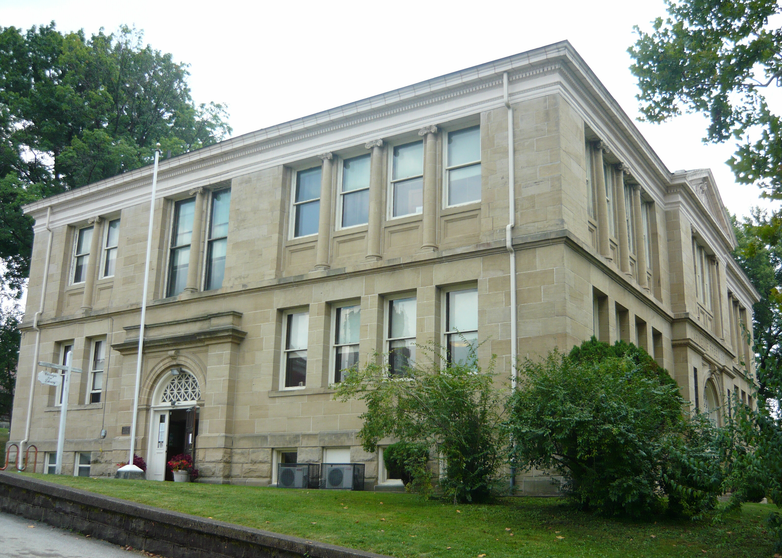 Carnegie Free Library, 299 South Pittsburgh Street (corner of E. South Street), Connellsville, Pennsylvania. Built 1903 in an Italian Renaissance style. Architect: J. M. McCollum.